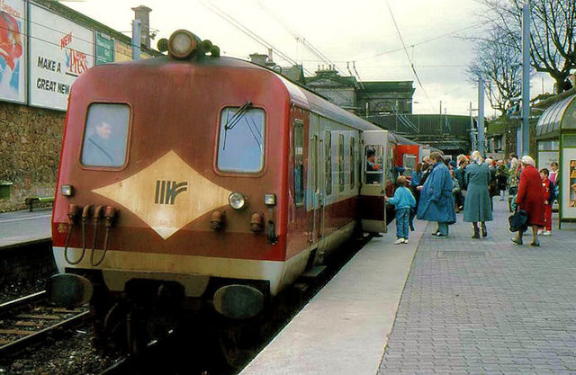 Work was underway on the up line between Dun Laoghaire and Bray. The current to the overhead lines had been switched off for the duration. A limited shuttle service, with chartered Northern Ireland Railways diesel railcars (normally used for the Bray-Greystones service), operated over the down line.